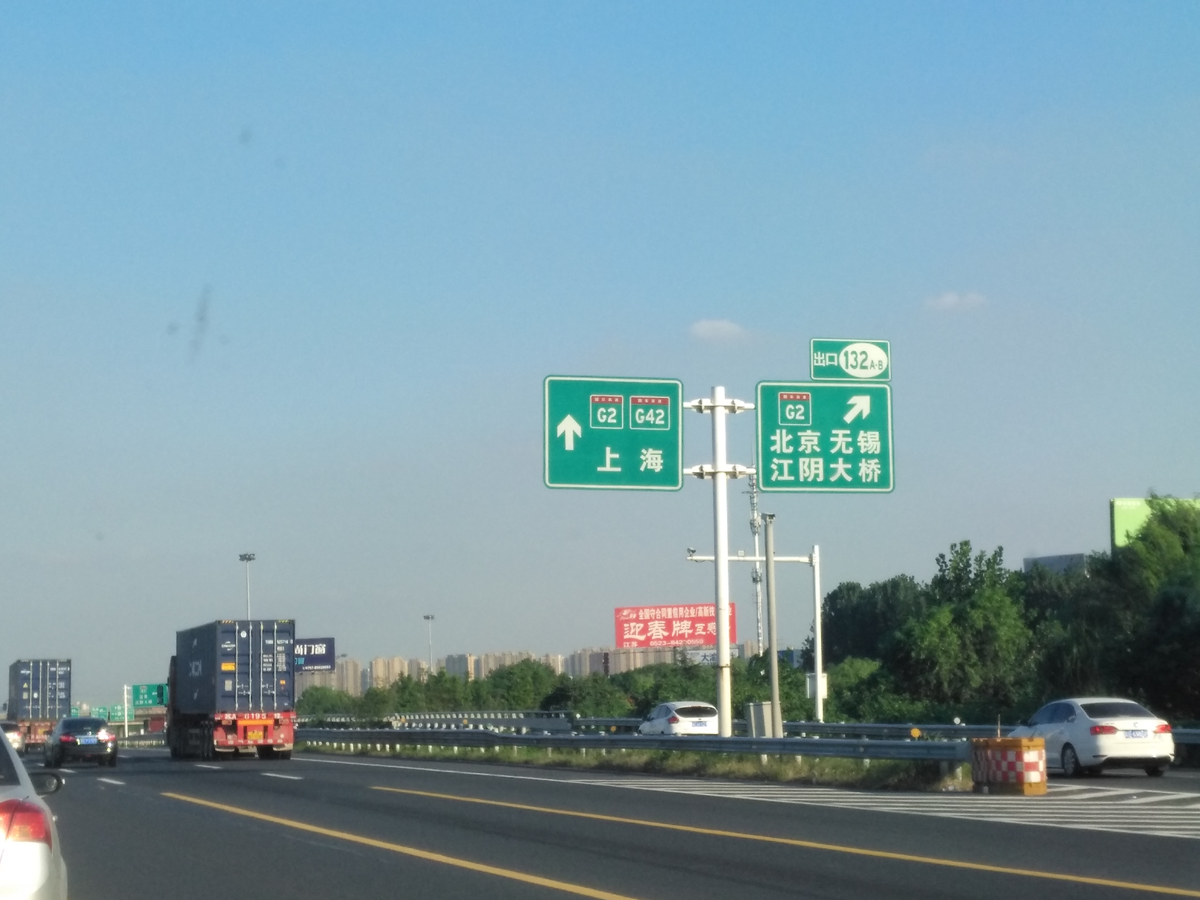 Wuxi Hub of G2 Jinghu Expressway and G42 Hurong Expressway. After this hub, the two expressways are merged into one expressway, which called Huning (Shanghai-Nanjing) Expressway in old expressway naming system.